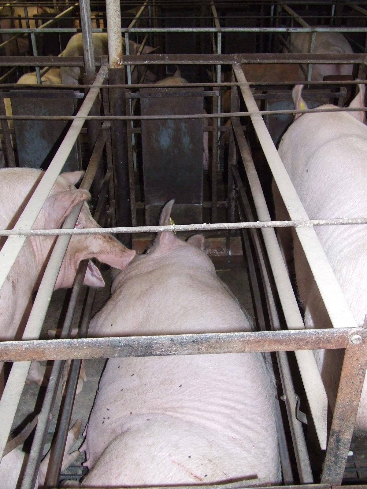 Sows in a gestation crate in Levin, New Zealand, showing stereotypical bar-biting behaviour. Note how the sow in the foreground is unable to lie down without encroaching on her neighbour's space.